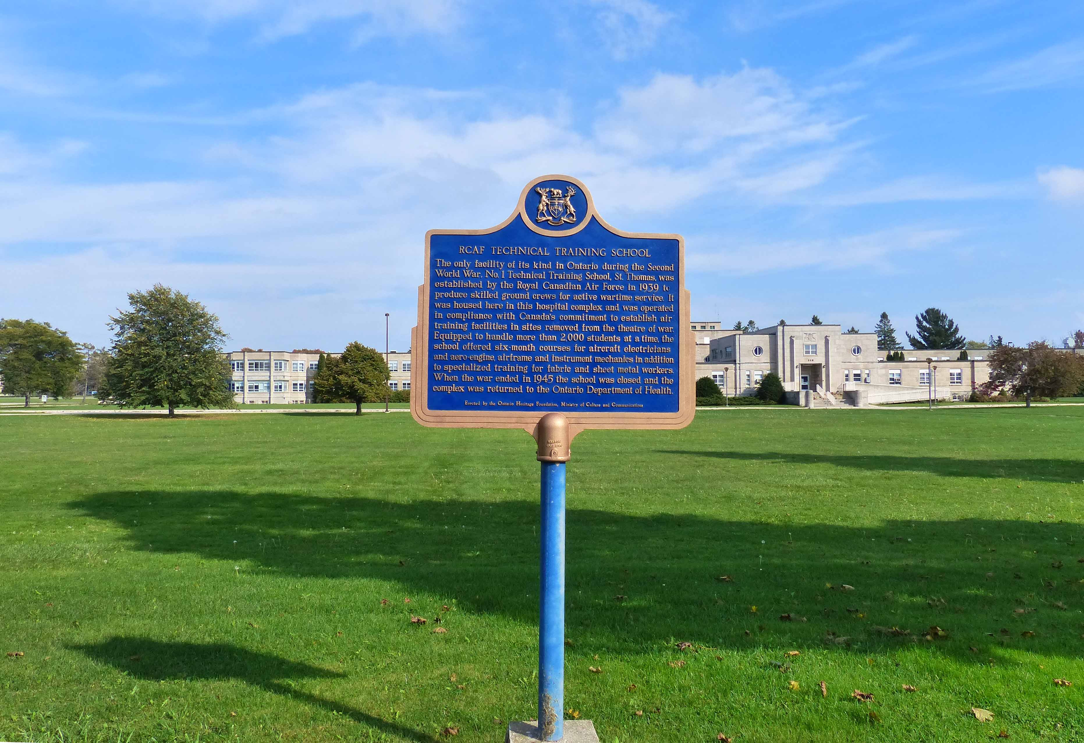 The site of RCAF No. 1 Technical Training School, Sunset Drive, (Highway 4) south of St. Thomas, Ontario, Canada. This complex of buildings was opened in 1939 by the Government of Ontario. It was a residential psychiatric hospital. At the beginning of the Second World War the Government of Ontario turned the complex over to the Department of National Defence.